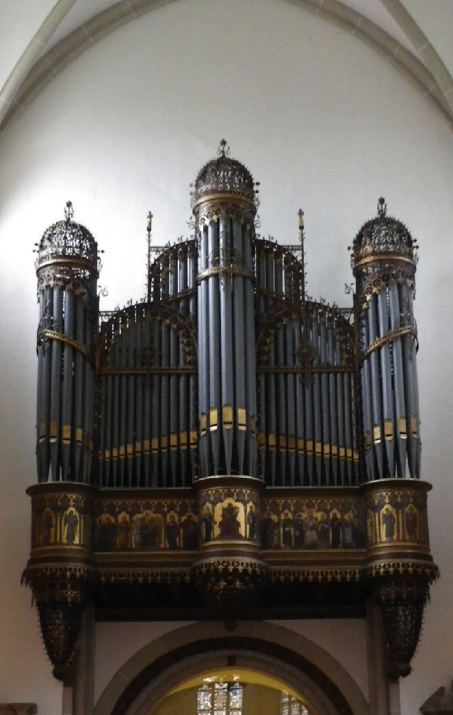 Prospekt der Orgel der St.-Mauritz-Kirche in Münster